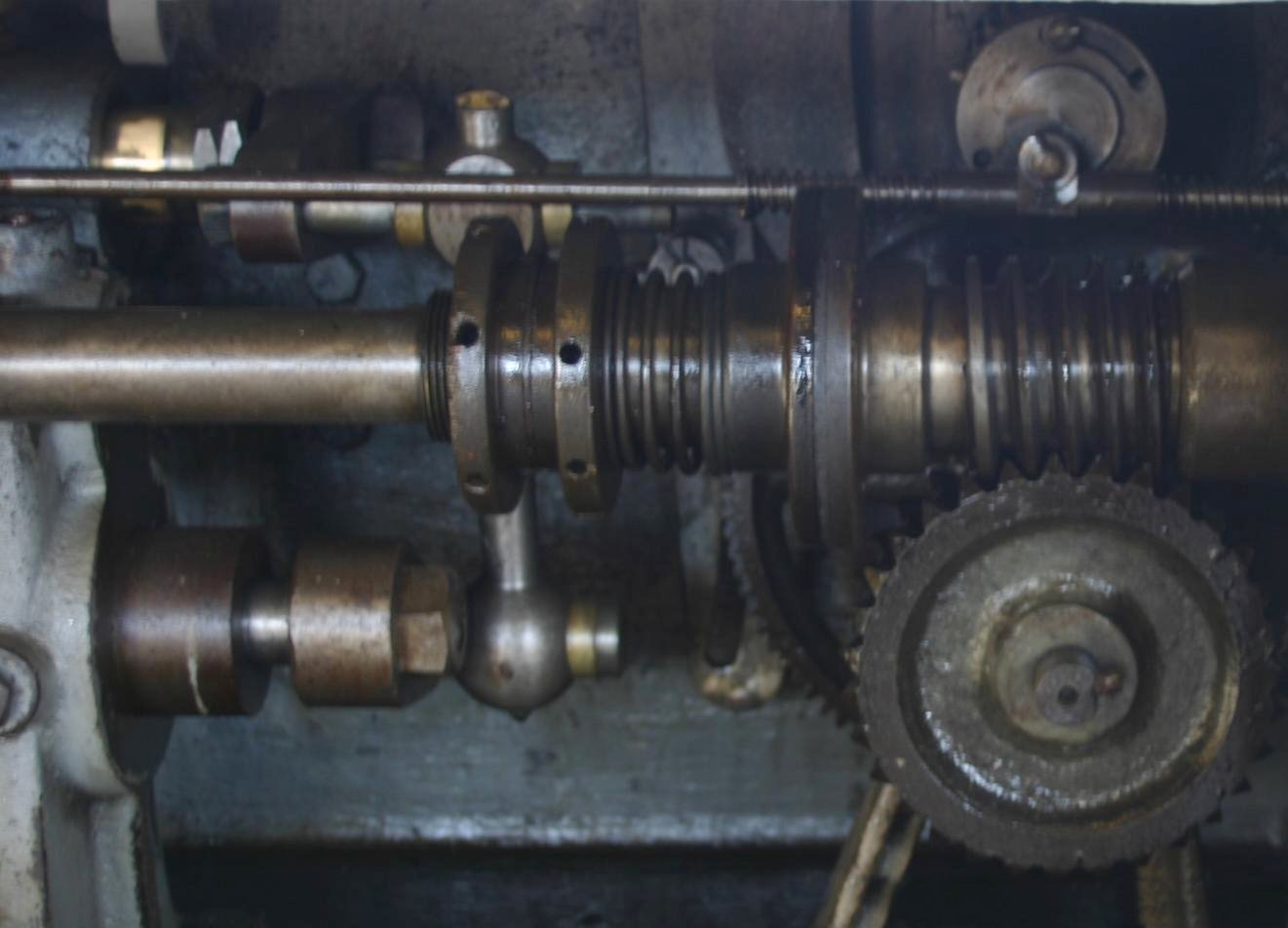 Worm drive from the kneading machine at a former brickyard.